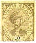 Bateken illegal stamp of an inextant state